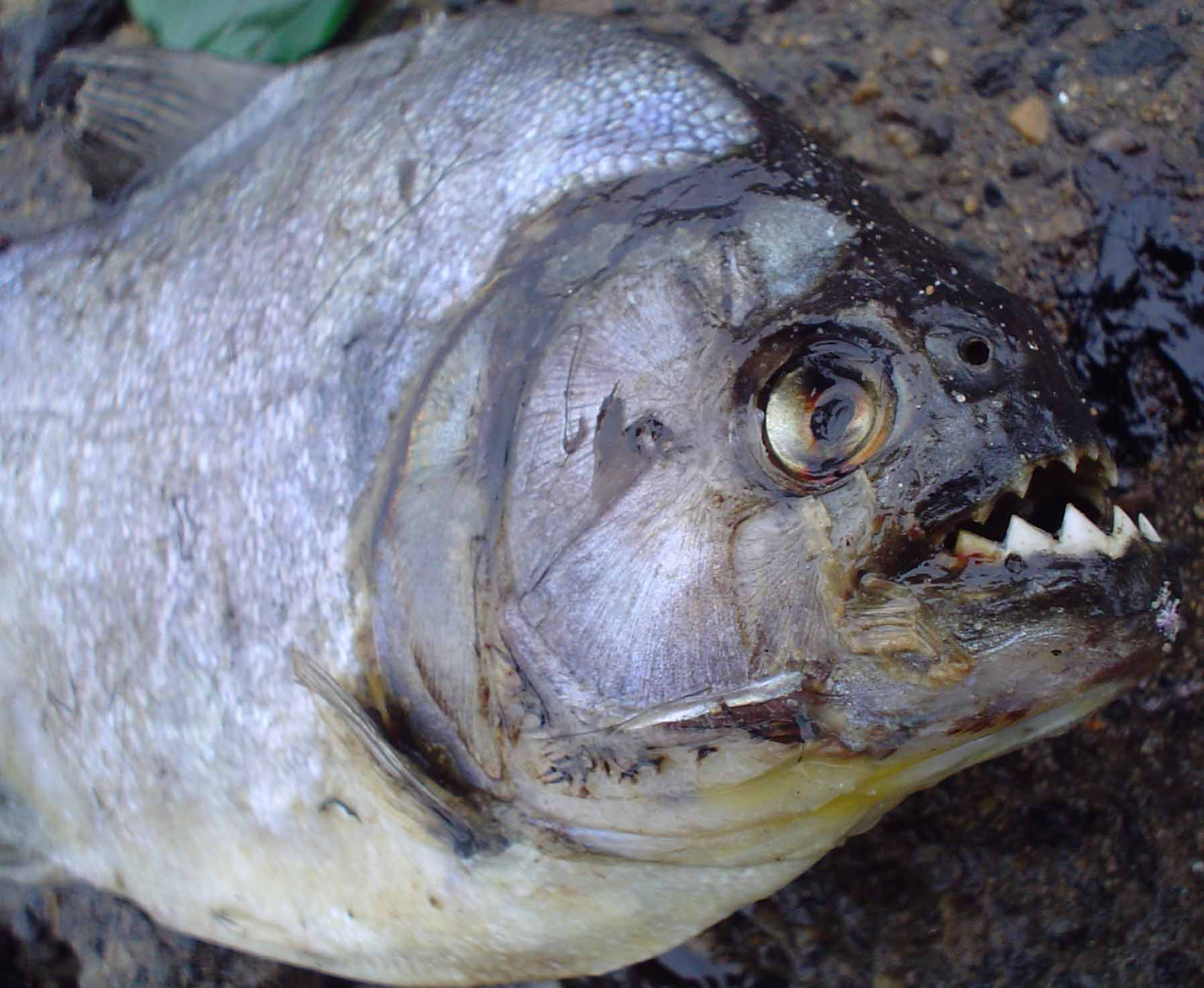 Dead piranha. Parana river, Argentina